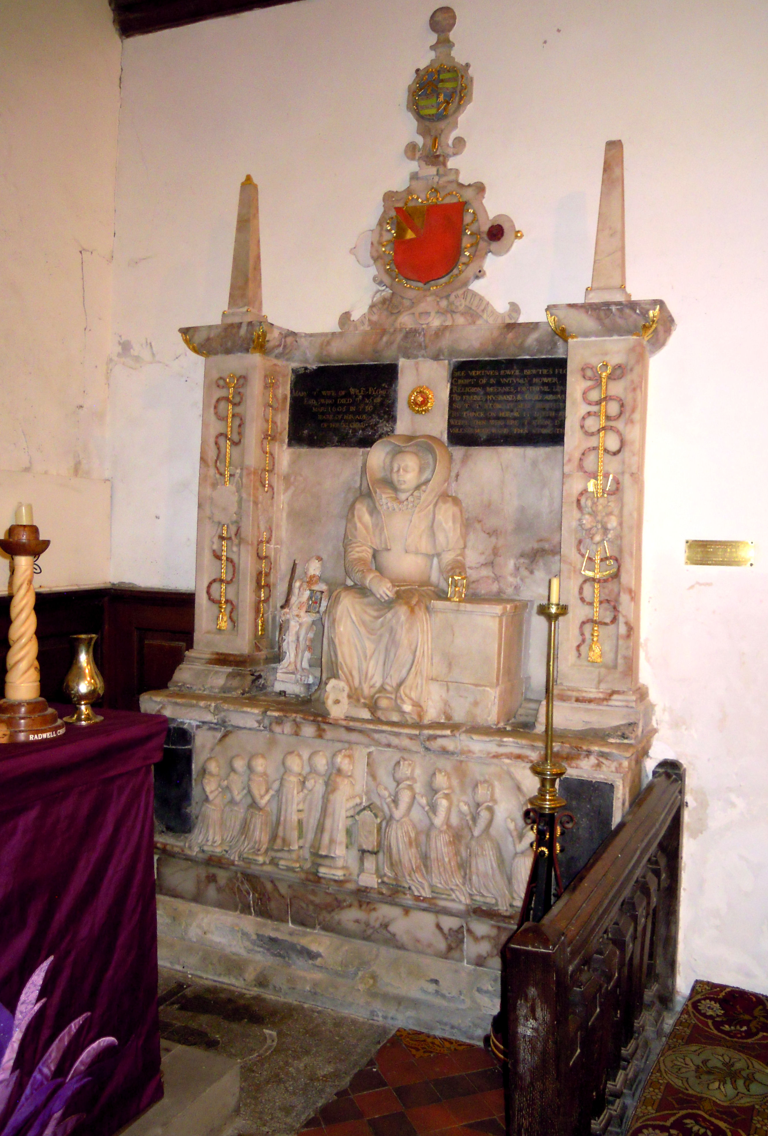 The effigy tomb of Mary Plomer (died 1605) at Church of All Saints, Radwell